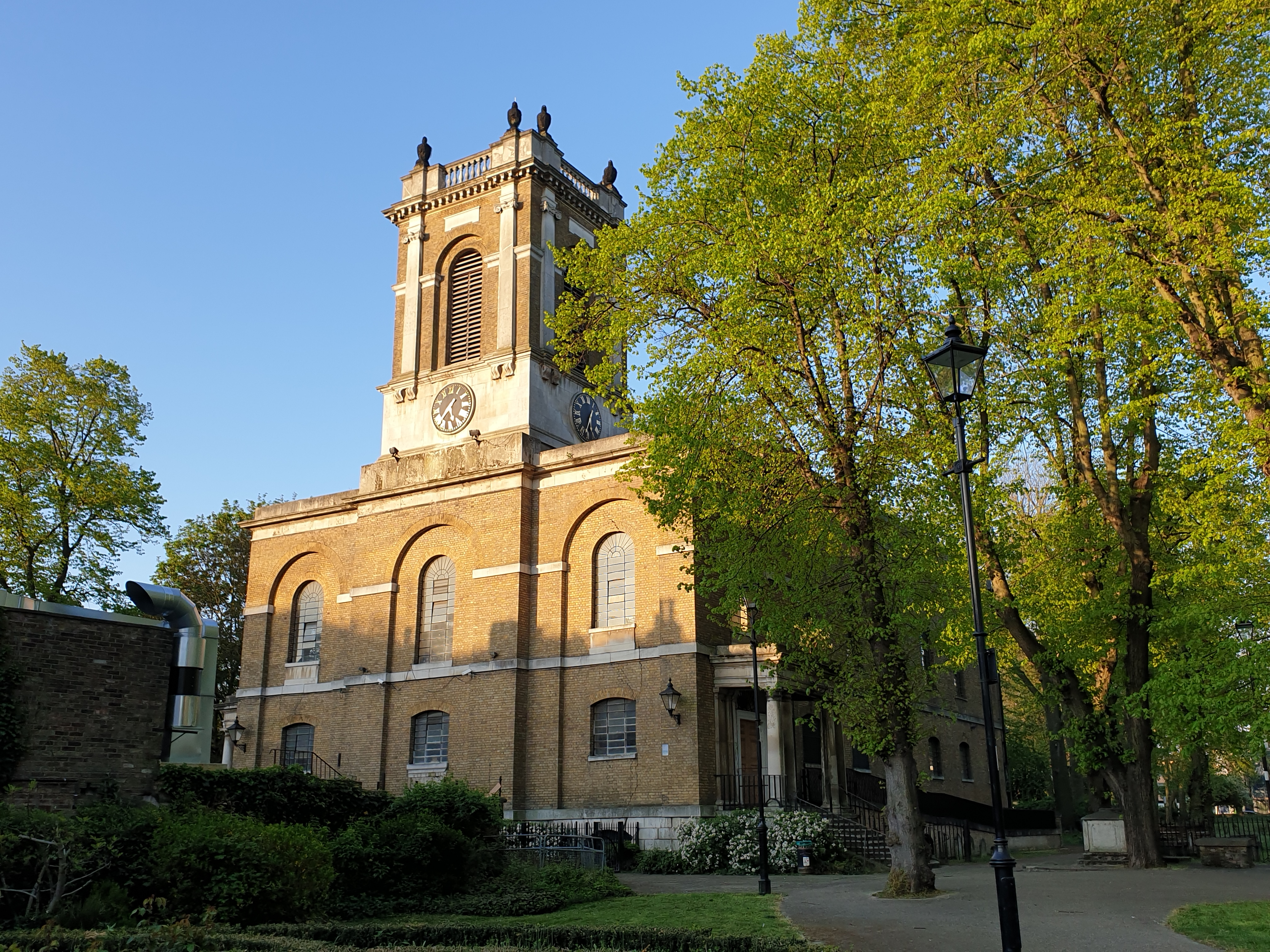 St Mary Magdalene Church, Holloway Road, Islington, London - April 2020